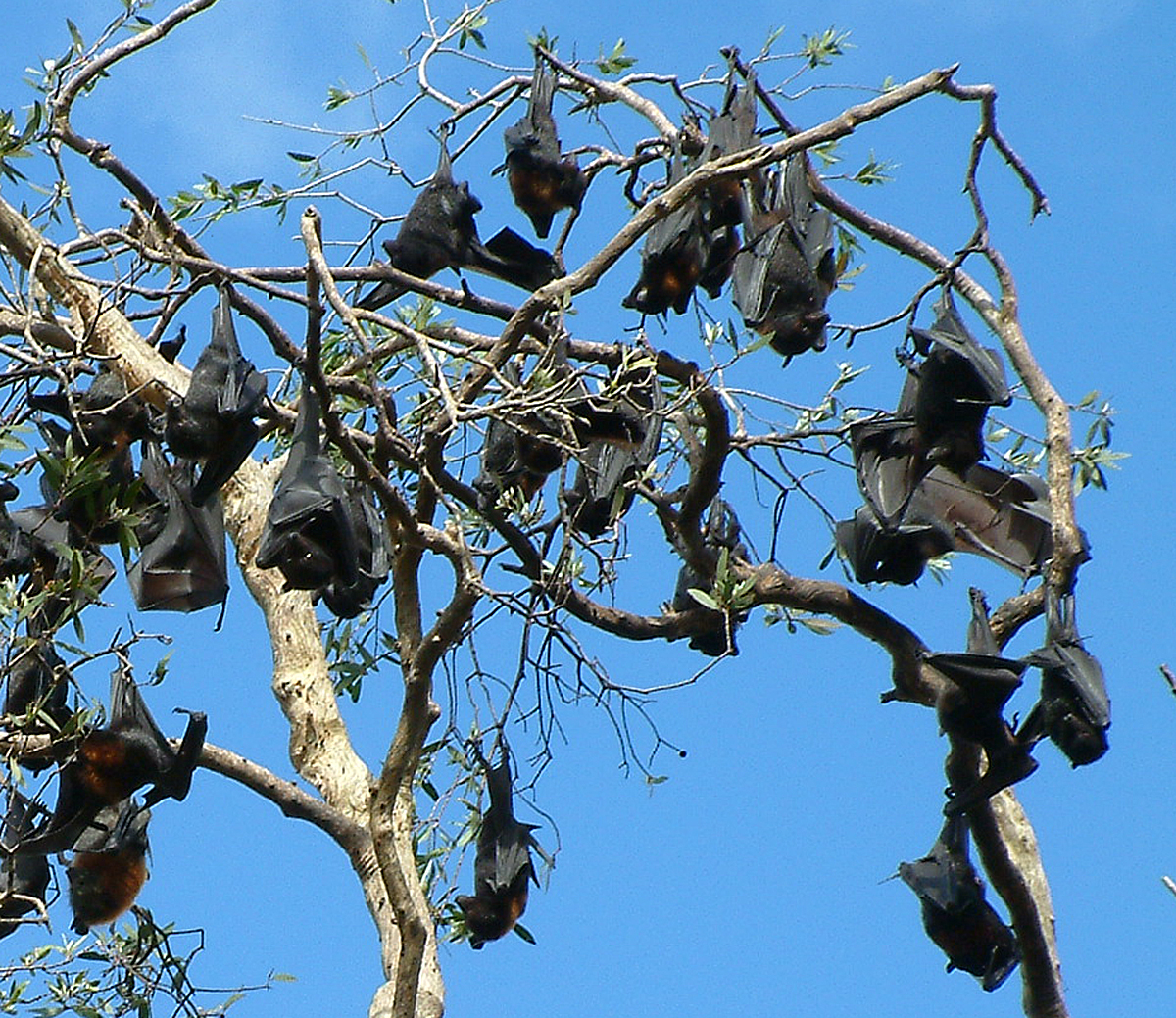 Groups of Pteropus alecto rested in a tree.